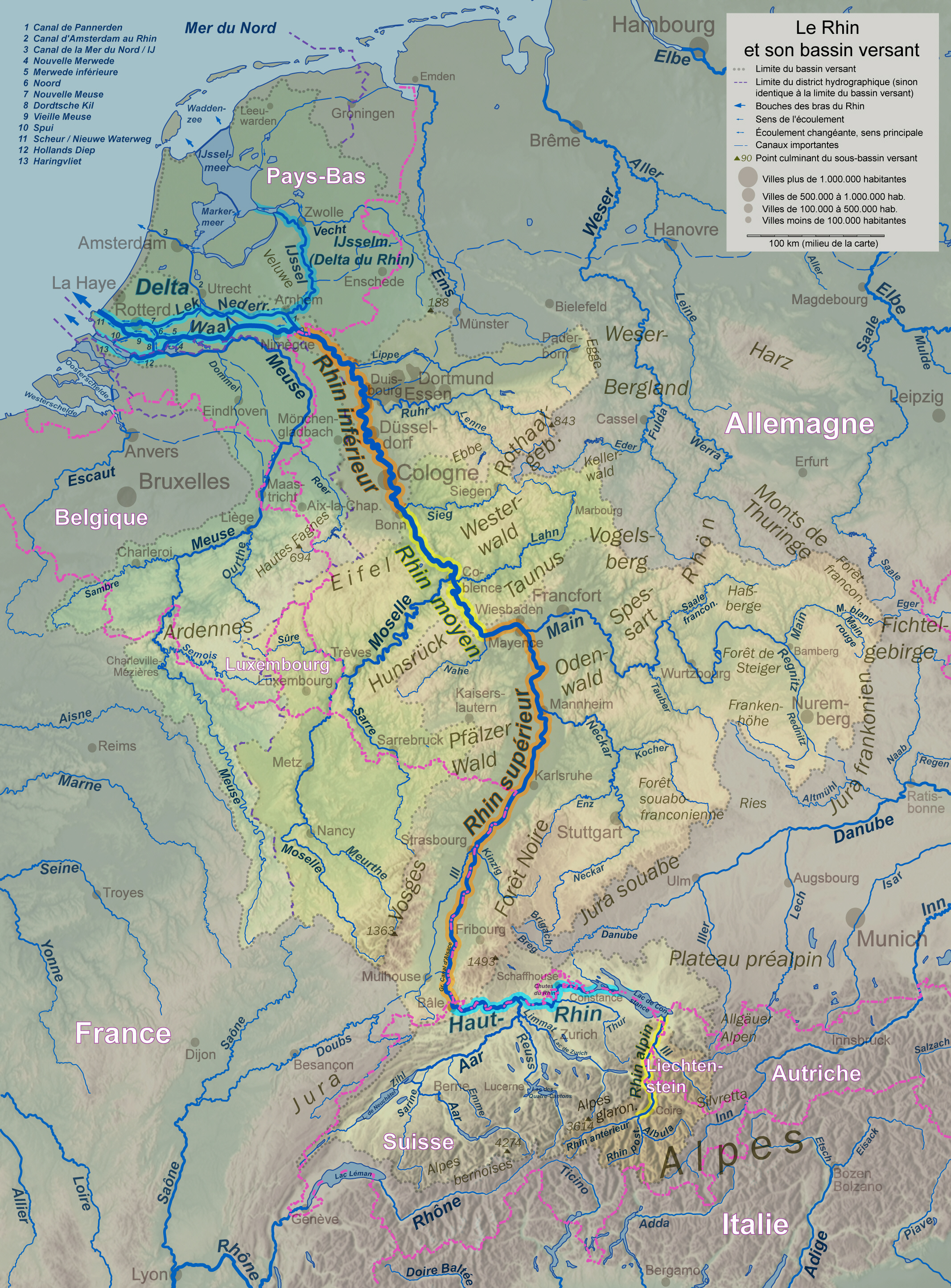 Map of the Rhine course and its major tributaries, French labels